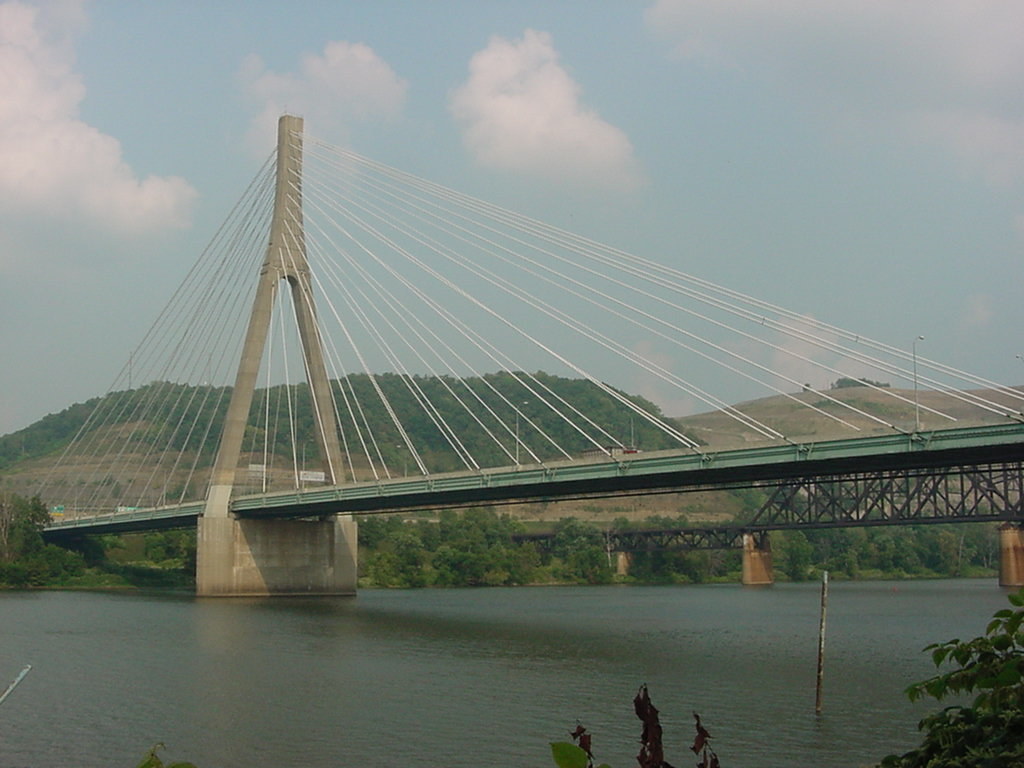 Photograph was taken personally while in Steubenville, Ohio.